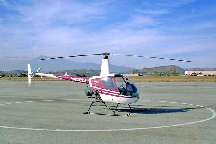 Robinson R22 Beta, Riverside Municipal Airport. Photo by Craig Kinzer.